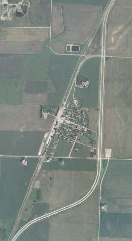 Bigelow, Minnsota, satellite photo This is an EROS photo by the USGS